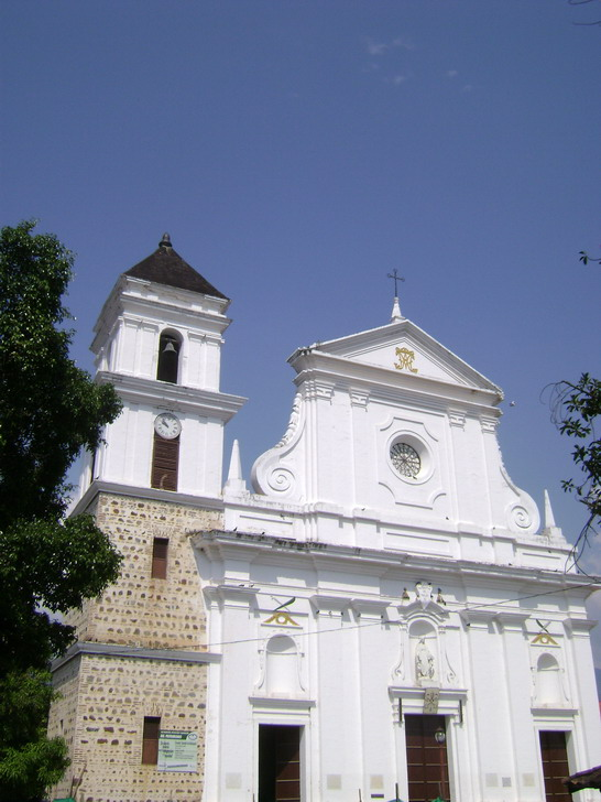 CATEDRAL DE SANTA DE DE ANTIOQUIA